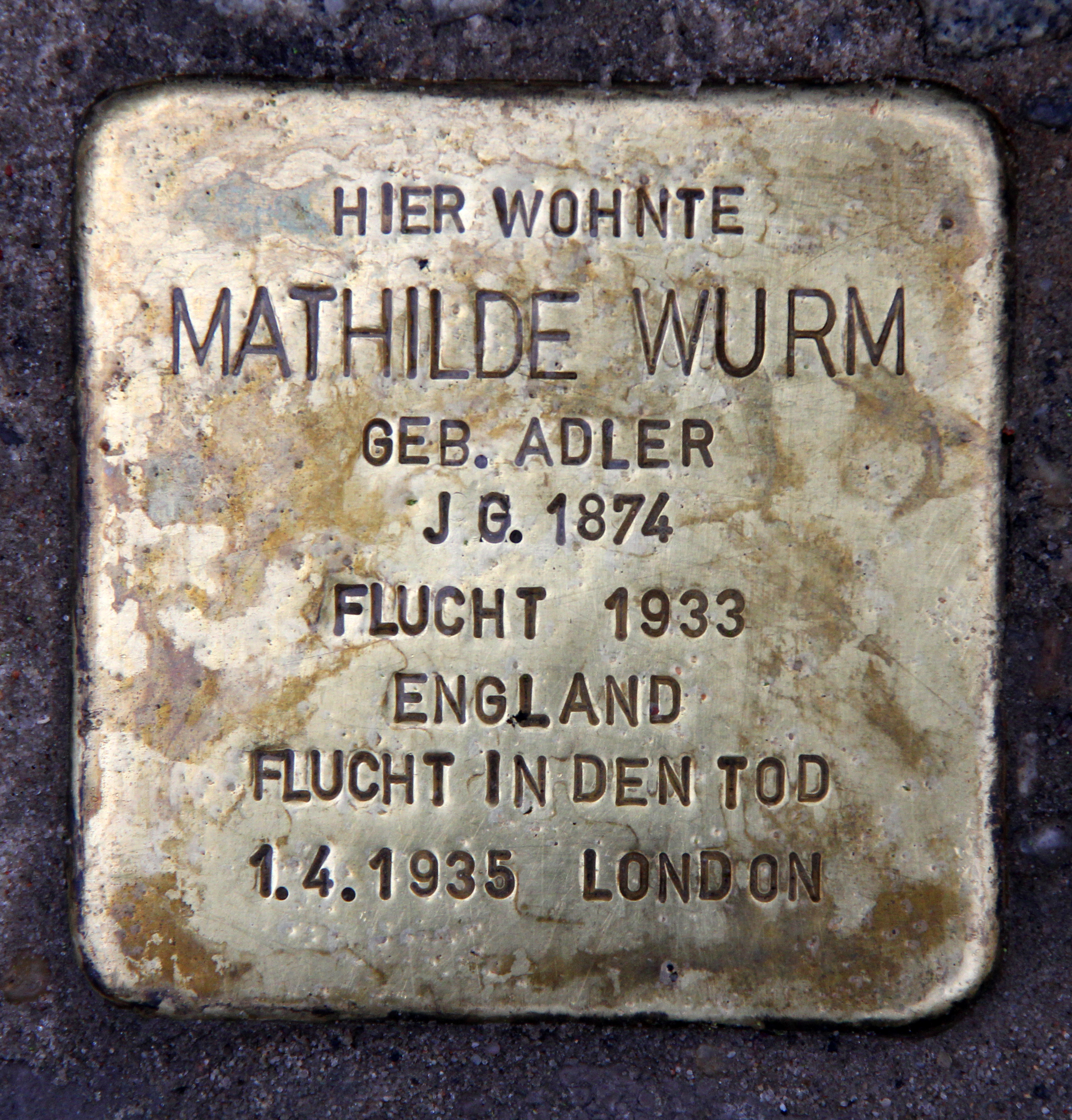 "Stolperstein" (stumbling block), Mathilde Wurm, Genthiner Straße 41, Berlin-Tiergarten, Germany